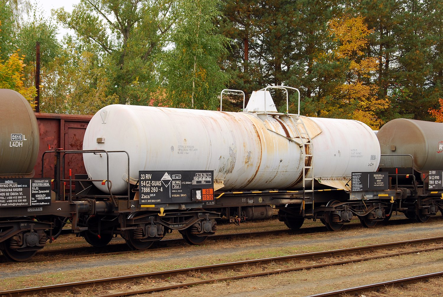 Zacs 33 54 786 6 260-4 (builder: Vagonka Poprad in 1993, Slovakia, owner: Sokolovska uhelna, Czech rep.) - used for sulphuric acid, spotted in the Ceska Lipa mainstation (Czech rep.) (10/2012).